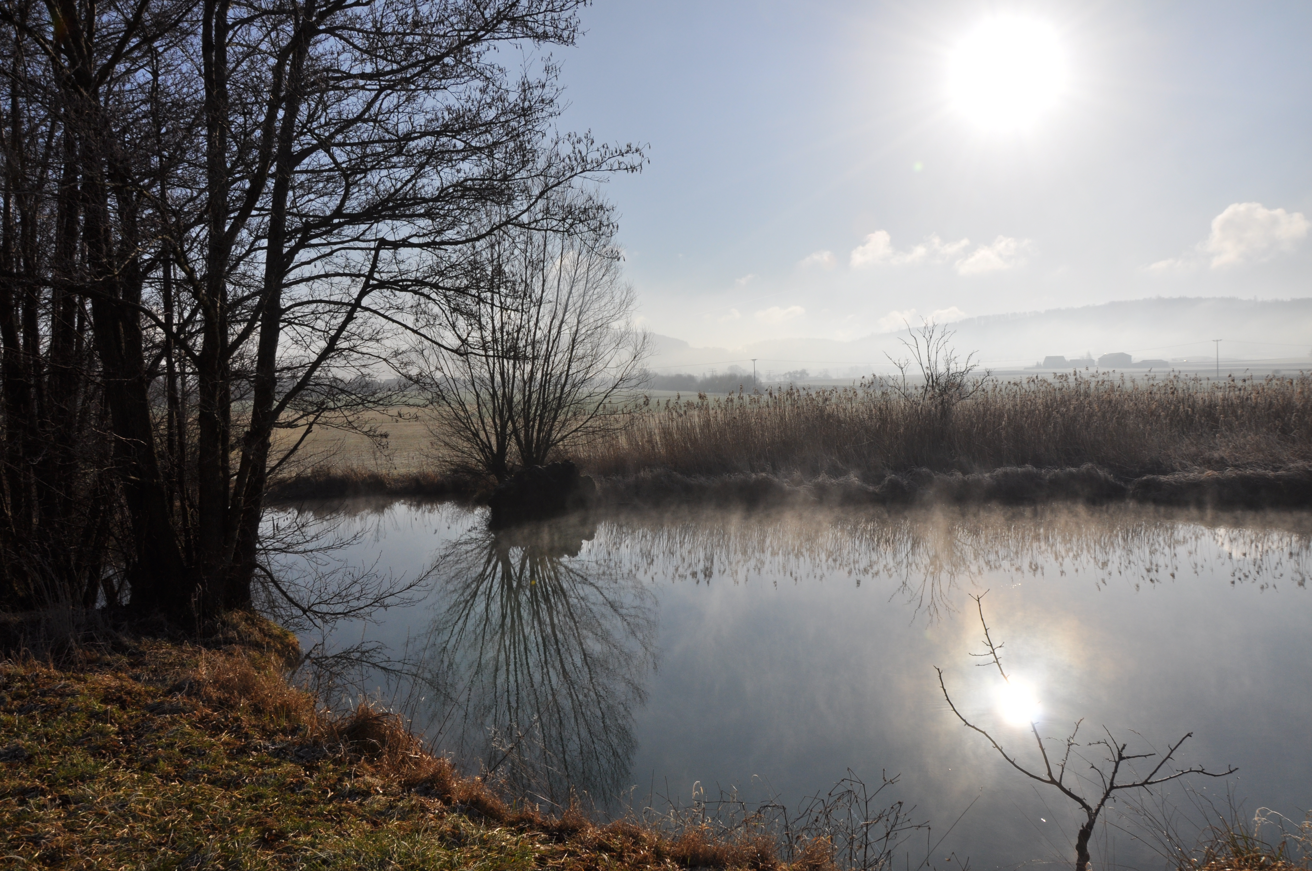 The source Bottomless Hole southwest of Unteroestheim located in the region of the base plaster. It forms an approximately 15 m wide central overflow with a depth of about 6 m. Size: length 20 m, width 15 m, height 6 m Geotoptyp: constriction Source